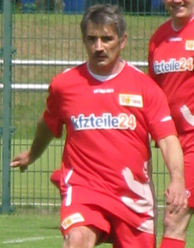 The east german football player Lutz Hendel playing for 1. FC Union Berlin (traditional team).